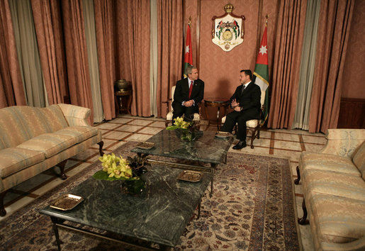 President George W. Bush and Jordan's King Abdullah II meet Wednesday, Nov. 29, 2006, at Raghadan Palace in Amman. White House photo by Eric Draper